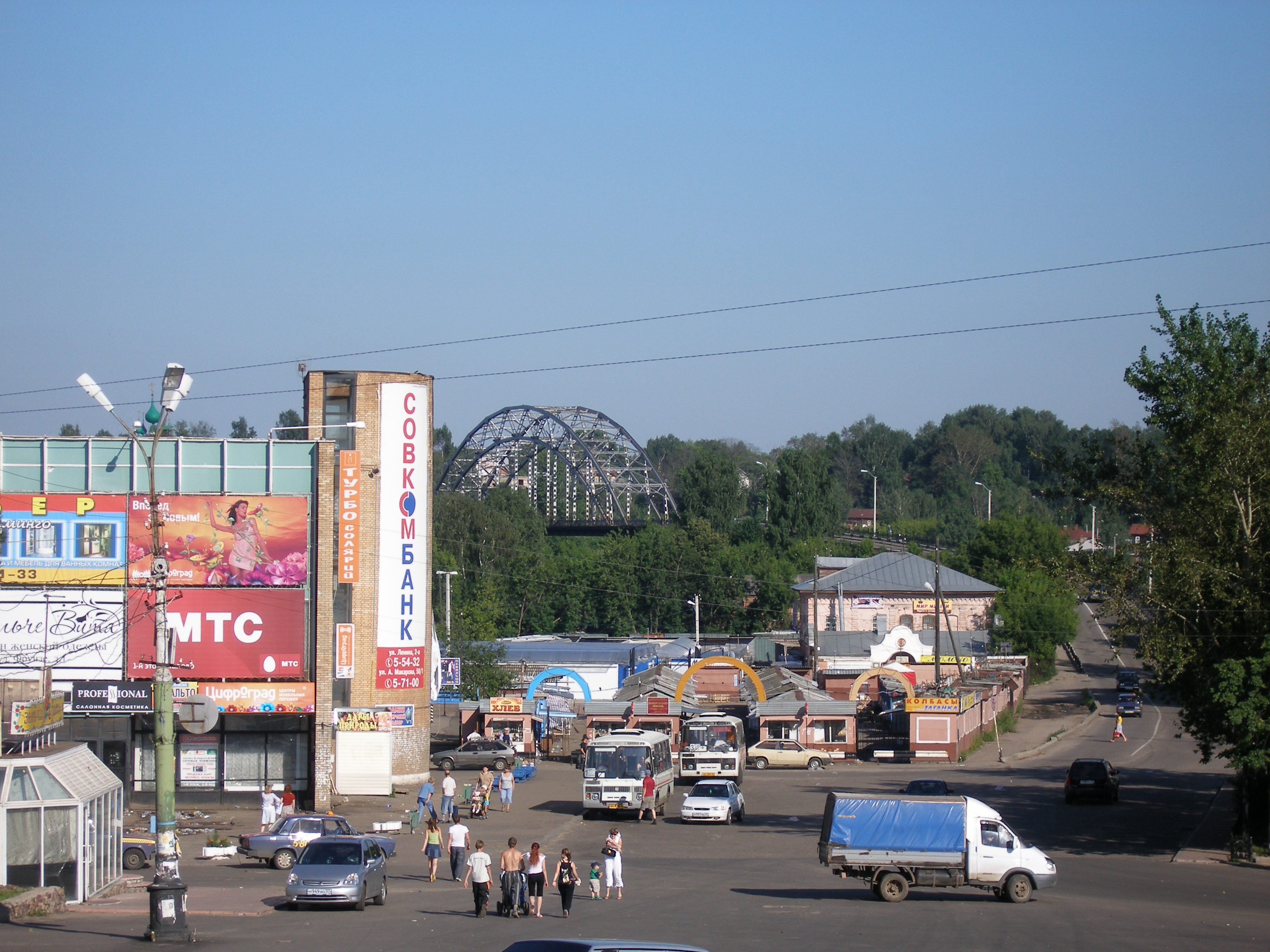 Kineshma, Russia